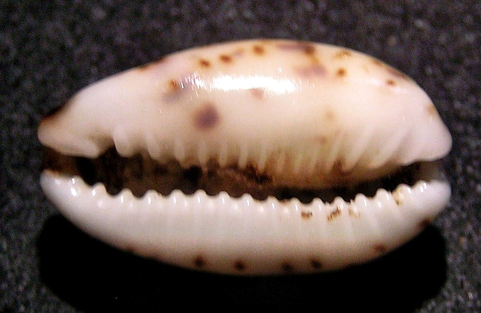 Bistolida kieneri depriesteri Schilder, 1933 ; a cowry in the family Cypraeidae; Philippines